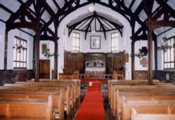 Hirosaki Ascension (Anglican) Church, Japan - Inside